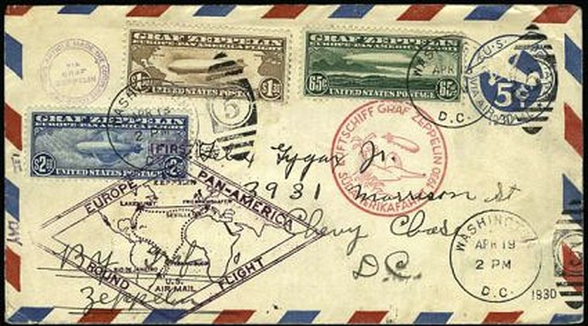 Image of a a flown first day cover